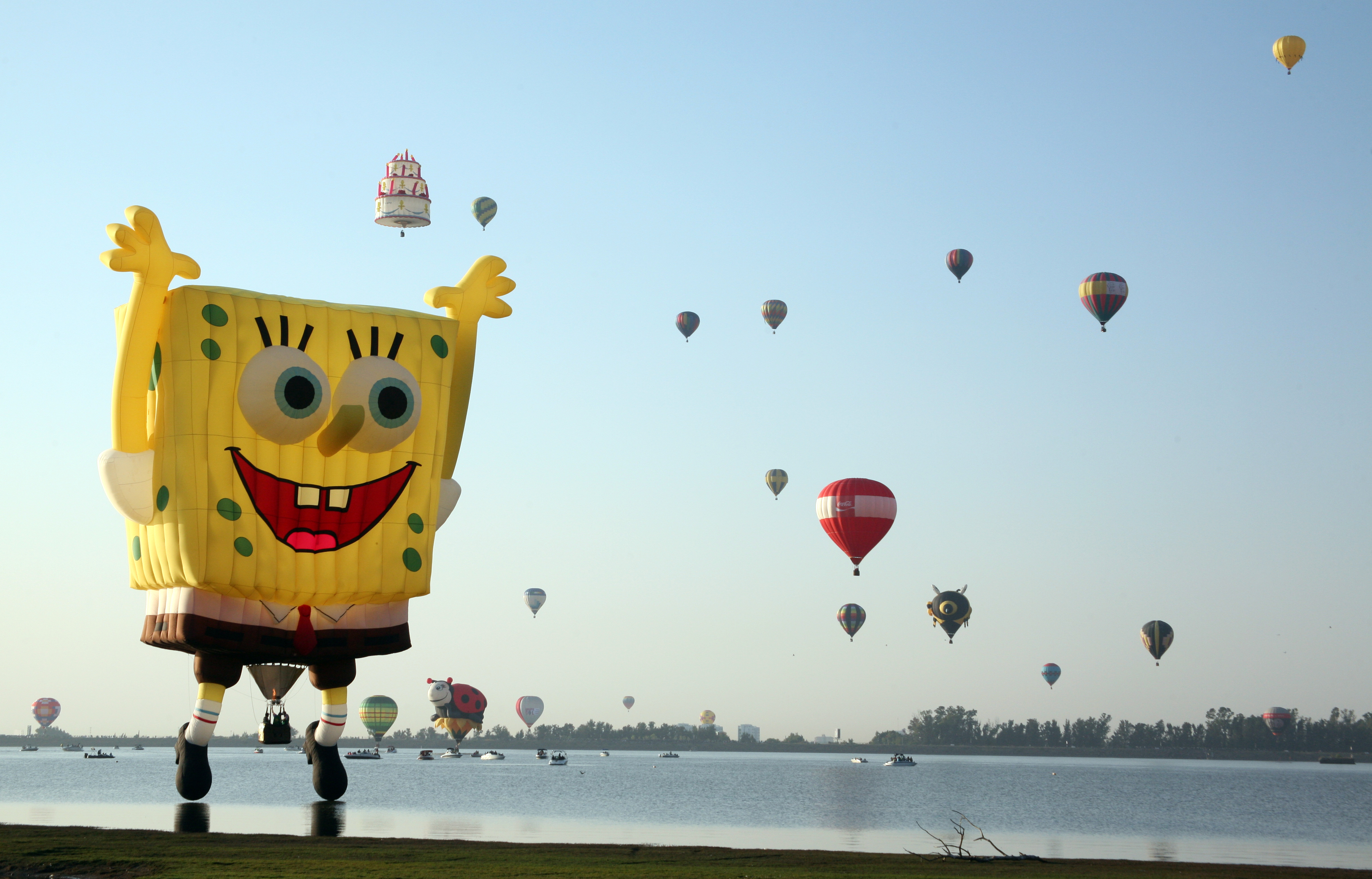 Hot air balloon festival in León, Guanajuato, Mexico. November 2010.